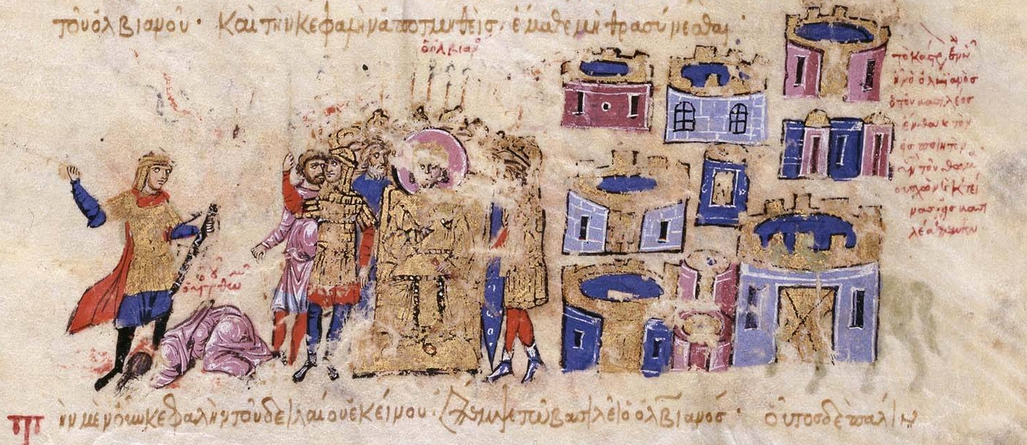 General Olbianos executes Thomas the Slav's adoptive son